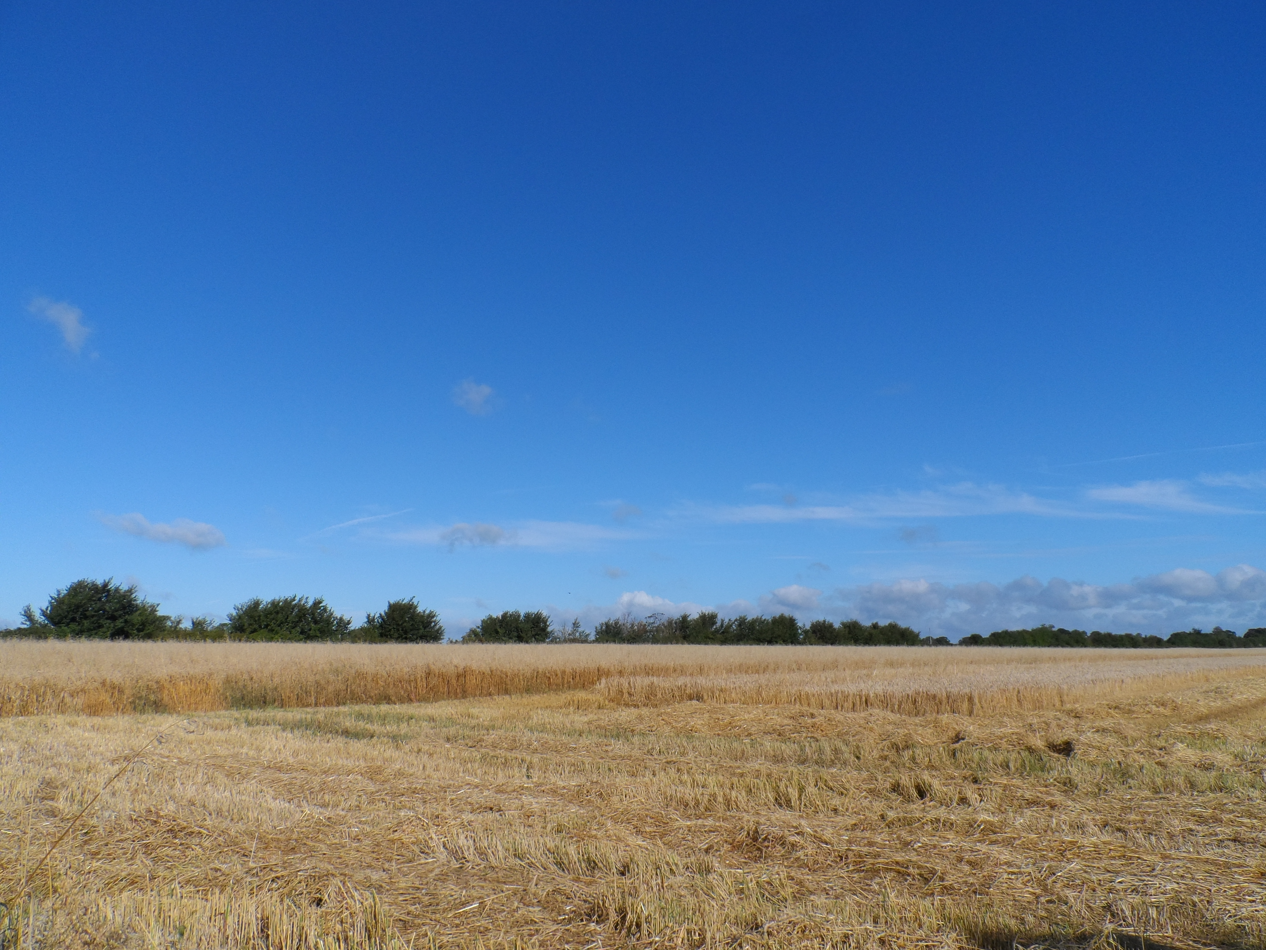 Field in County Kildare